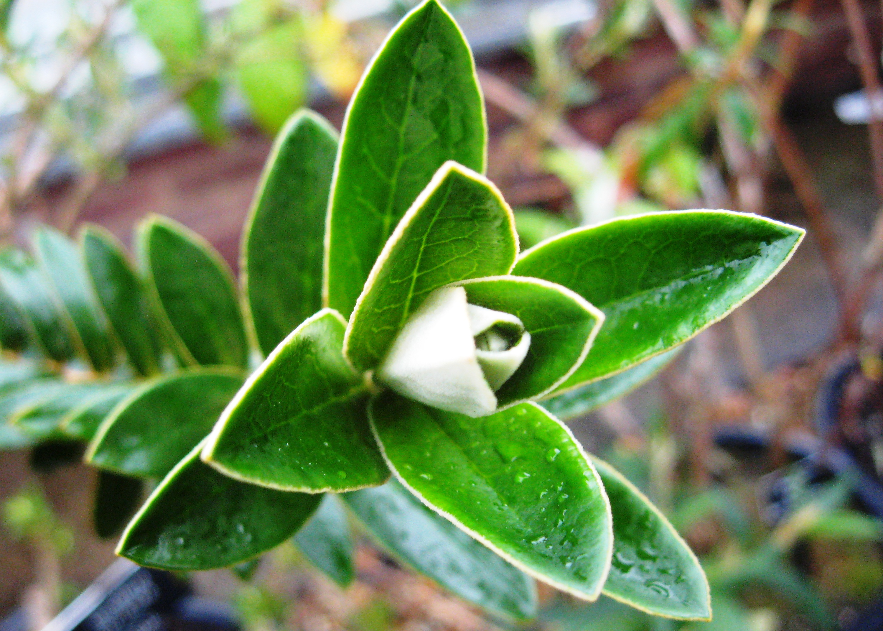 Photo of the foliage of Buddleja coriacea, Longstock Park Nursery.